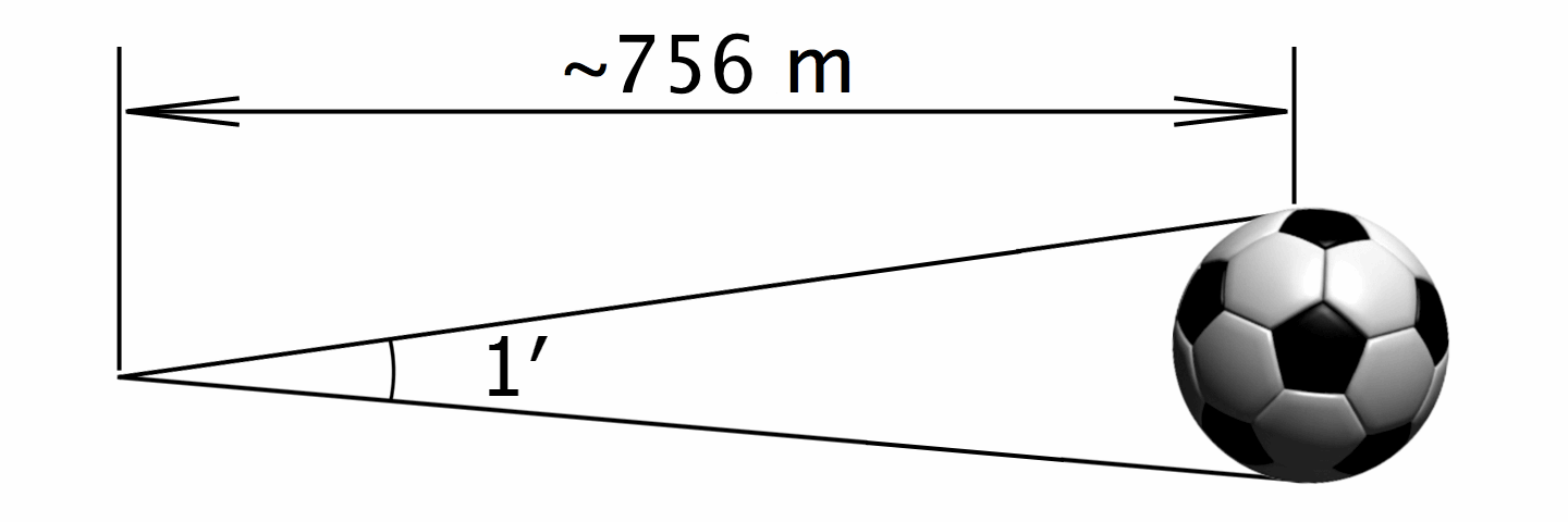 An illustration of the size of an arcminute. A standard soccer ball subtends an angle of 1 arcminute at a distance of approximately 756 metres.